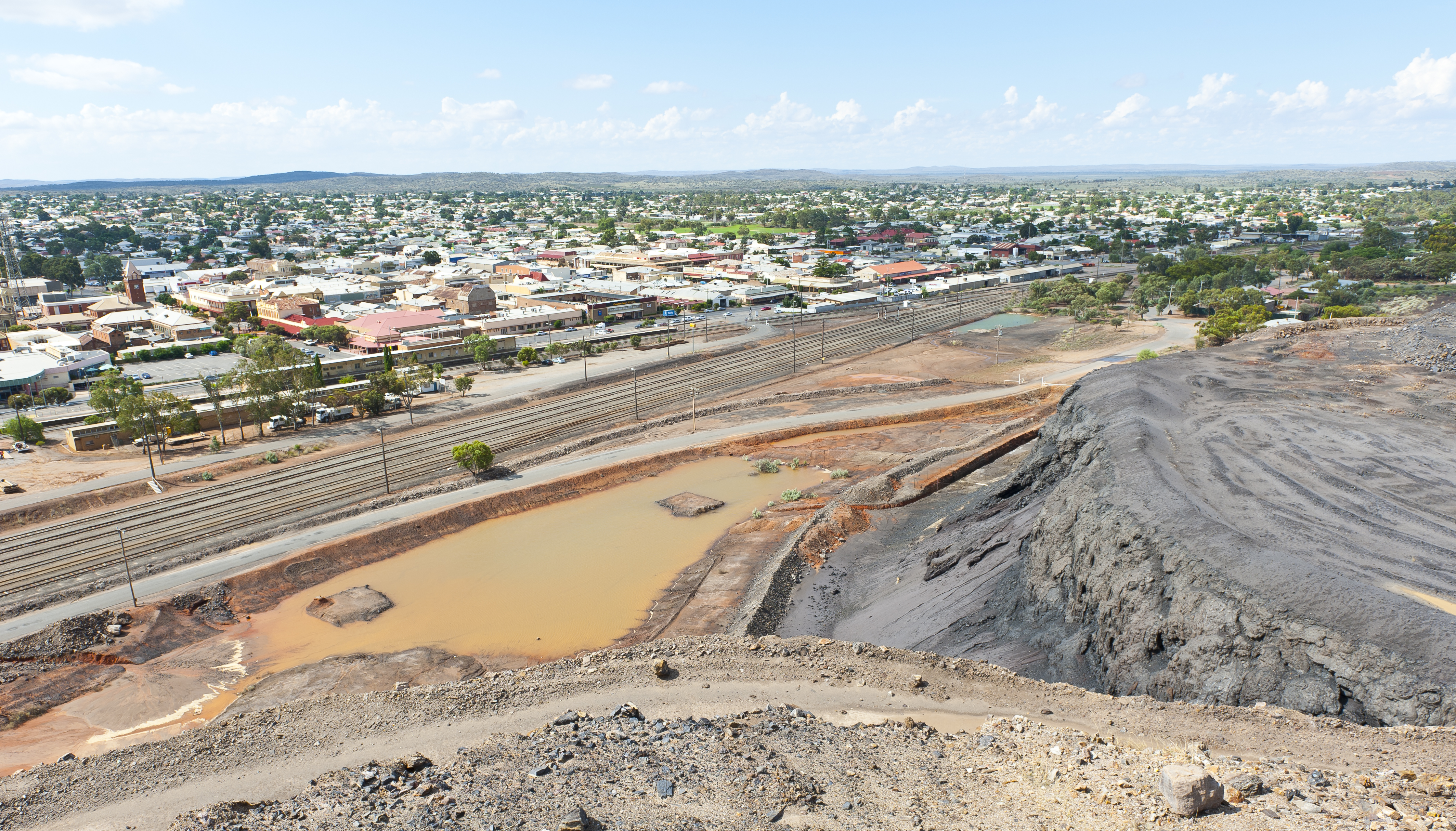 Broken Hill from the top of the slag heap.